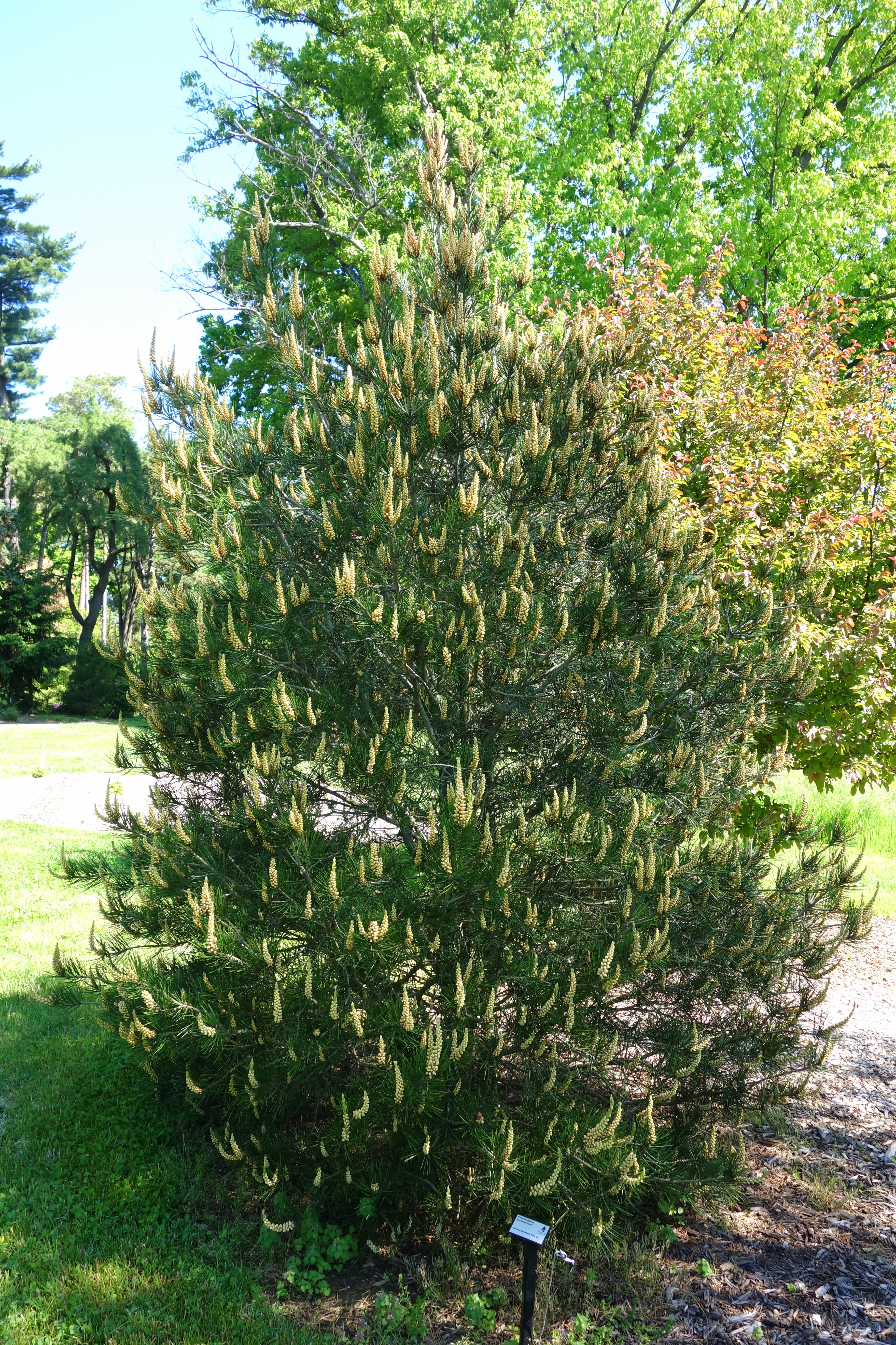 Botanical specimen in the Stanley M. Rowe Arboretum, Indian Hill, Ohio, USA.